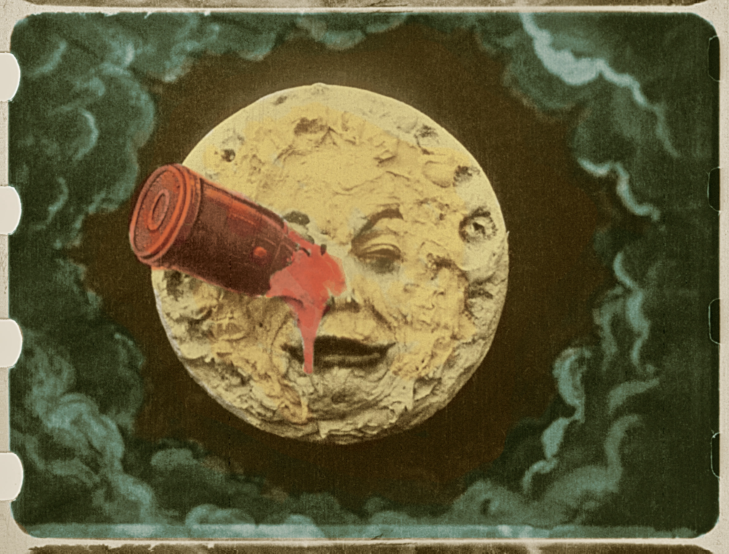 Frame from the only surviving hand-colored print of Georges Méliès's 1902 film Le voyage dans la lune.